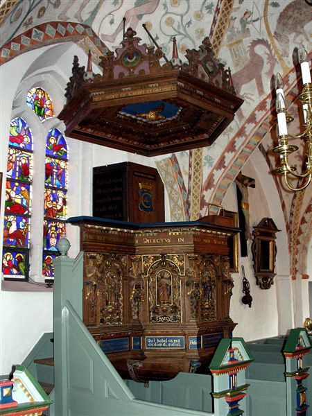 Birkerød Kirke (church)